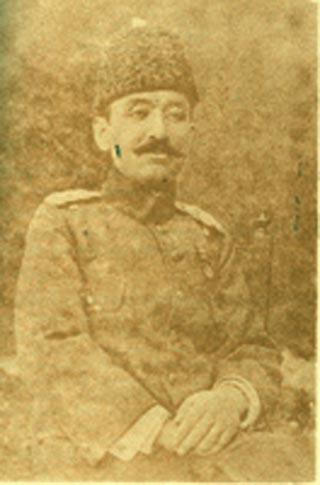 Hafız Hakkı Pasha ottoman general during the Battle of Sarıkamış